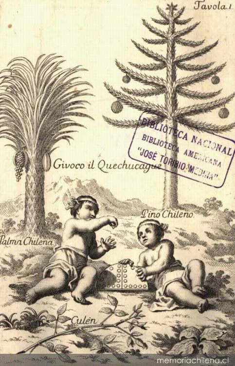 Gravure 1782